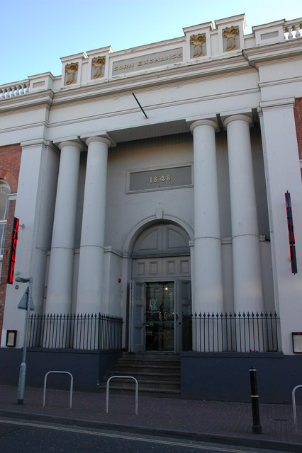 The Corn Exchange, Worcester Rivalry between those in favour and against the Corn Laws in the 19th century resulted in two Corn Markets in Worcester. The Corn Exchange was built in 1848 by the Protectionists. With farmers and buyers having two corn markets, neither prospered. The building is now an Italian restaurant.